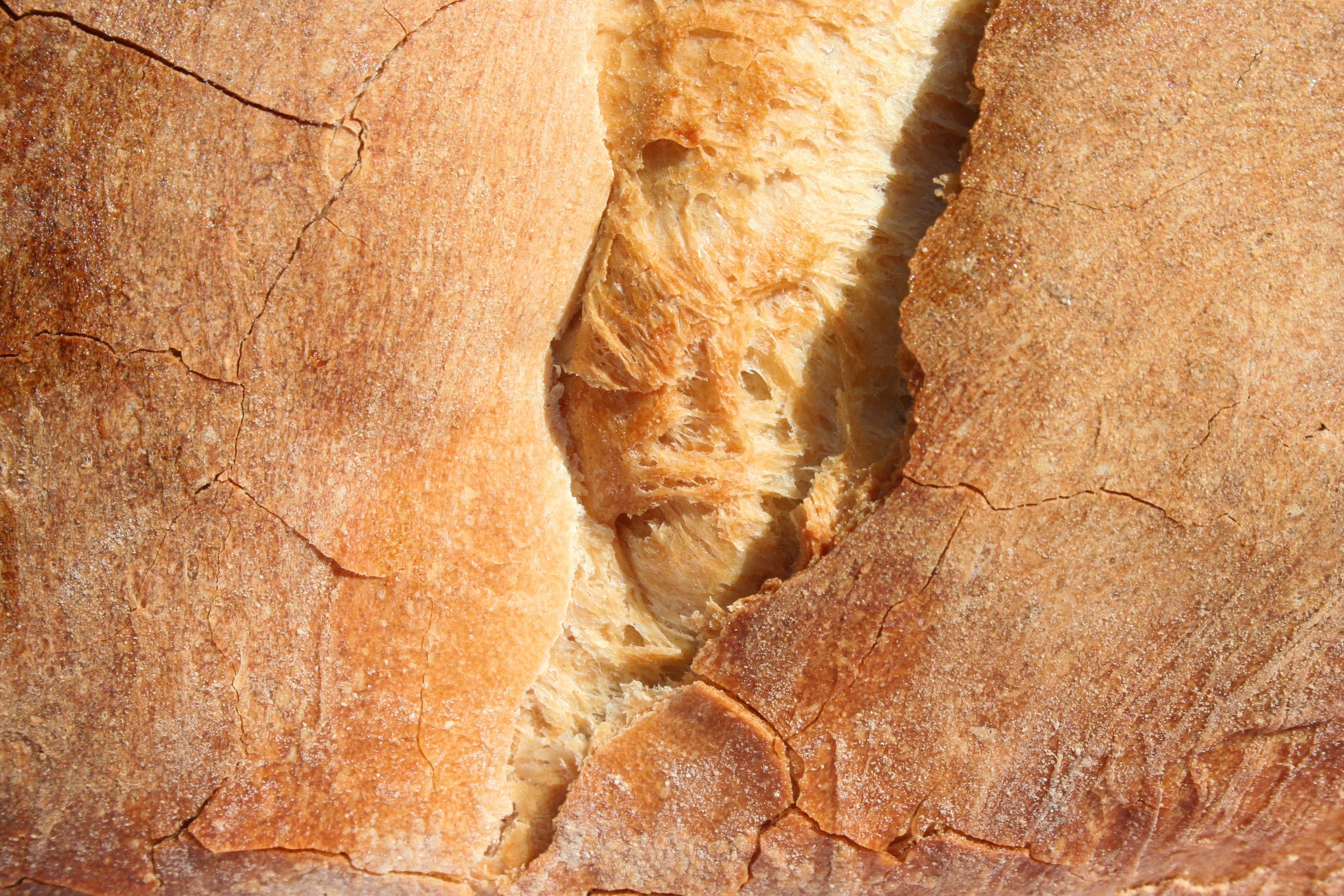 The surface of bread